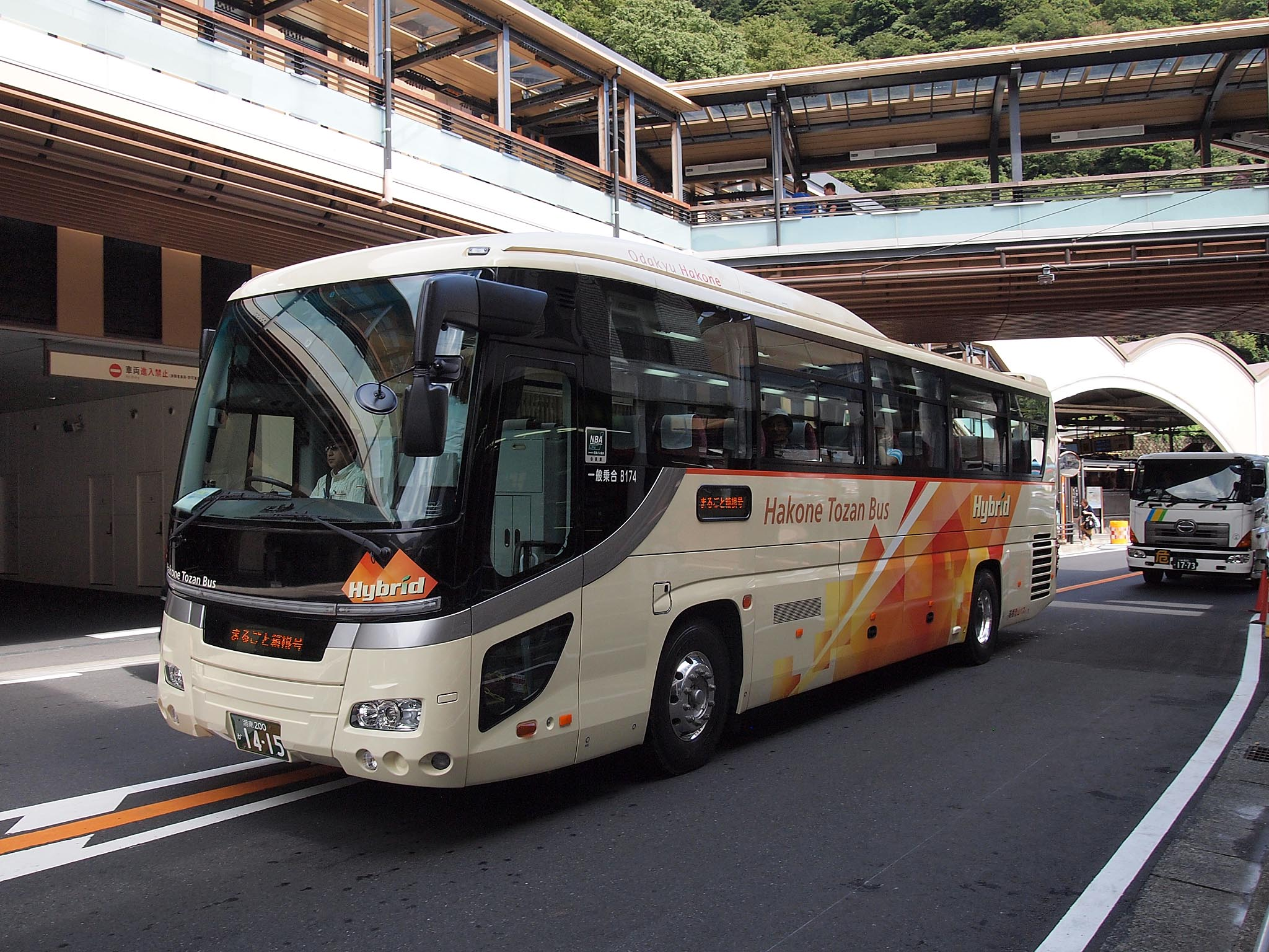 Departure of Marugoto Hakone Go from Hakone Yumoto Station, one-day tour in Hakone area, operated by Hakone Tozan Bus. Model: Hino Selega Hybrid BJG-RU1ASAR License plate: KNN200 KA1415